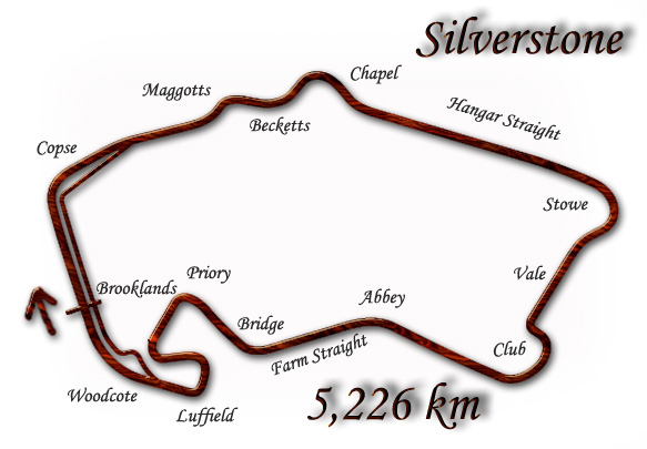 Diagram of the Silverstone Circuit following changes made in 1991. Used for British Grand Prix from 1991 to 1993.